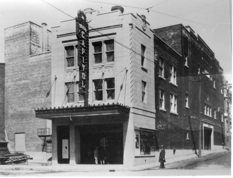 Capitol Theatre circa 1935 date QS:P,+1935-00-00T00:00:00Z/9,P1480,Q5727902